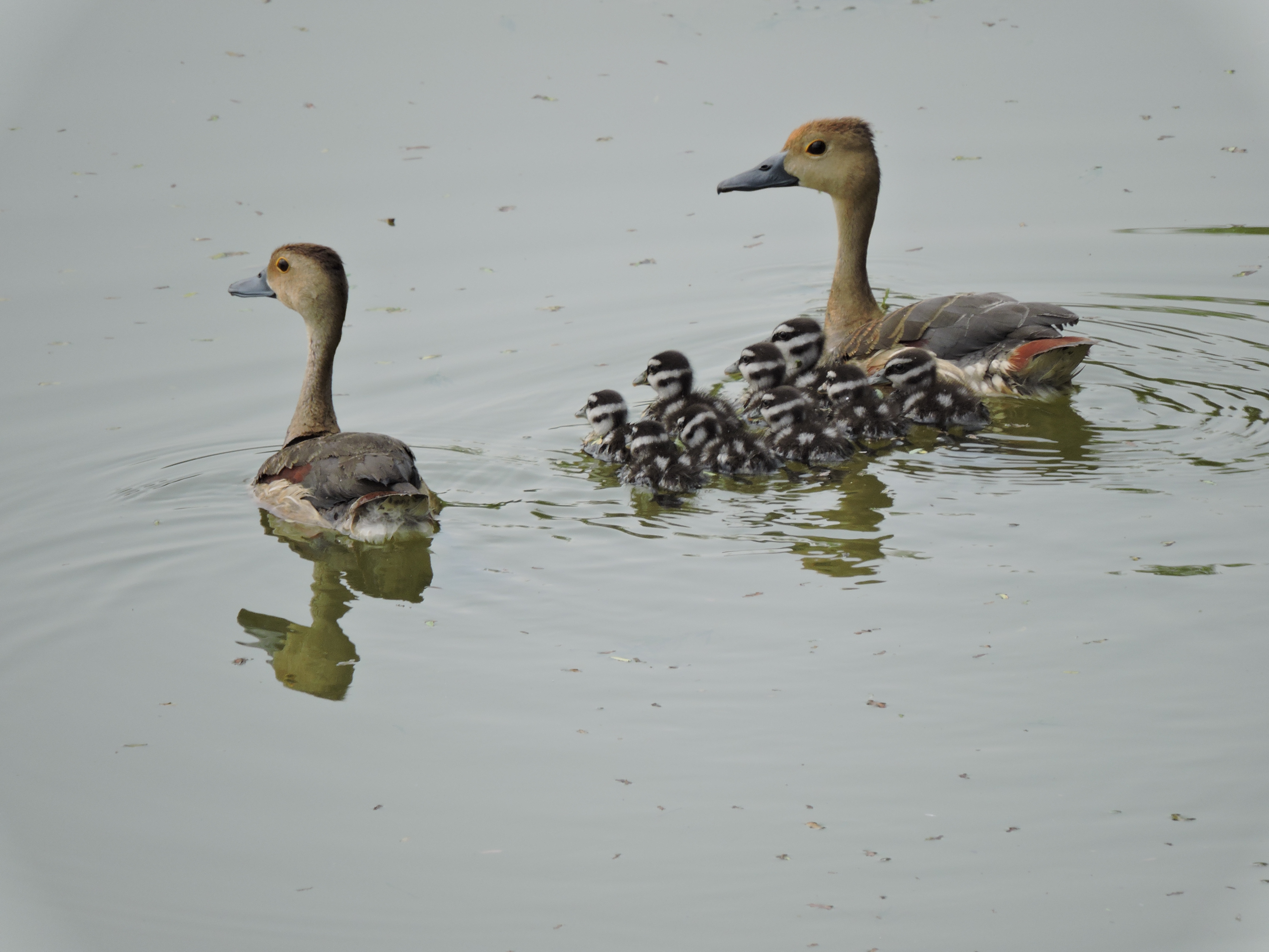 Migratory Birds' breeding at Sukhna Lake,Chandigarh,India